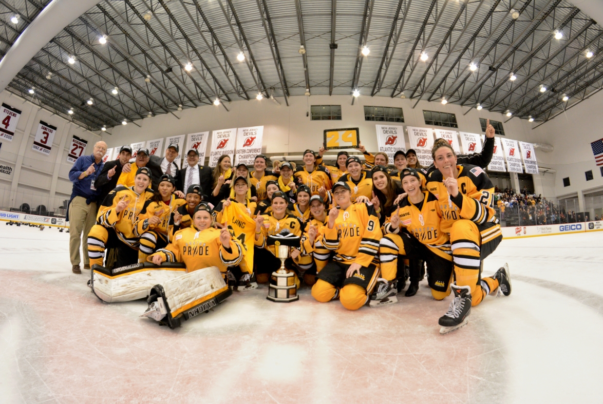 NWHL Isobel Cup winners 2016, Boston Pride.